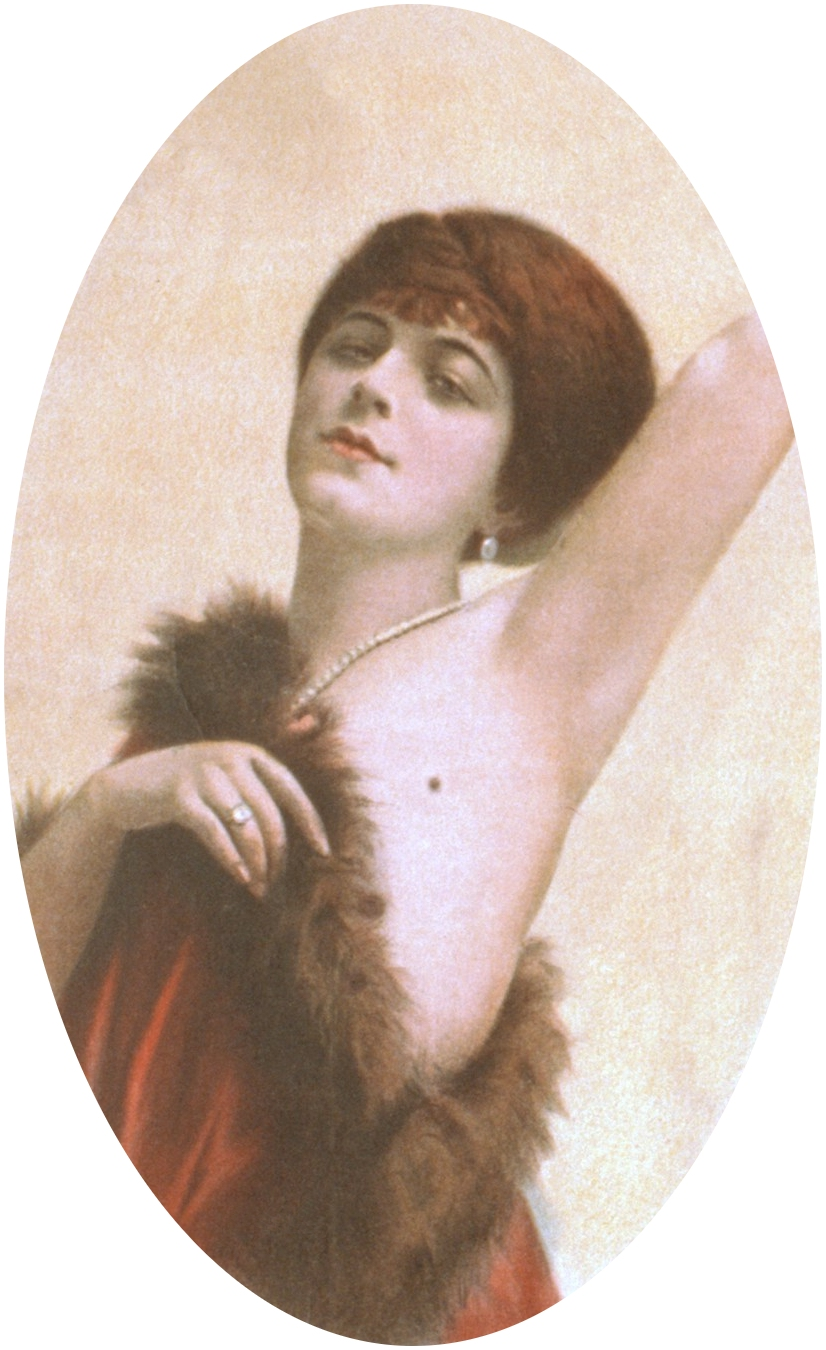 Actress Valeska Suratt in a poster for The Girl with the Whooping Cough, 1910 a Broadway play.